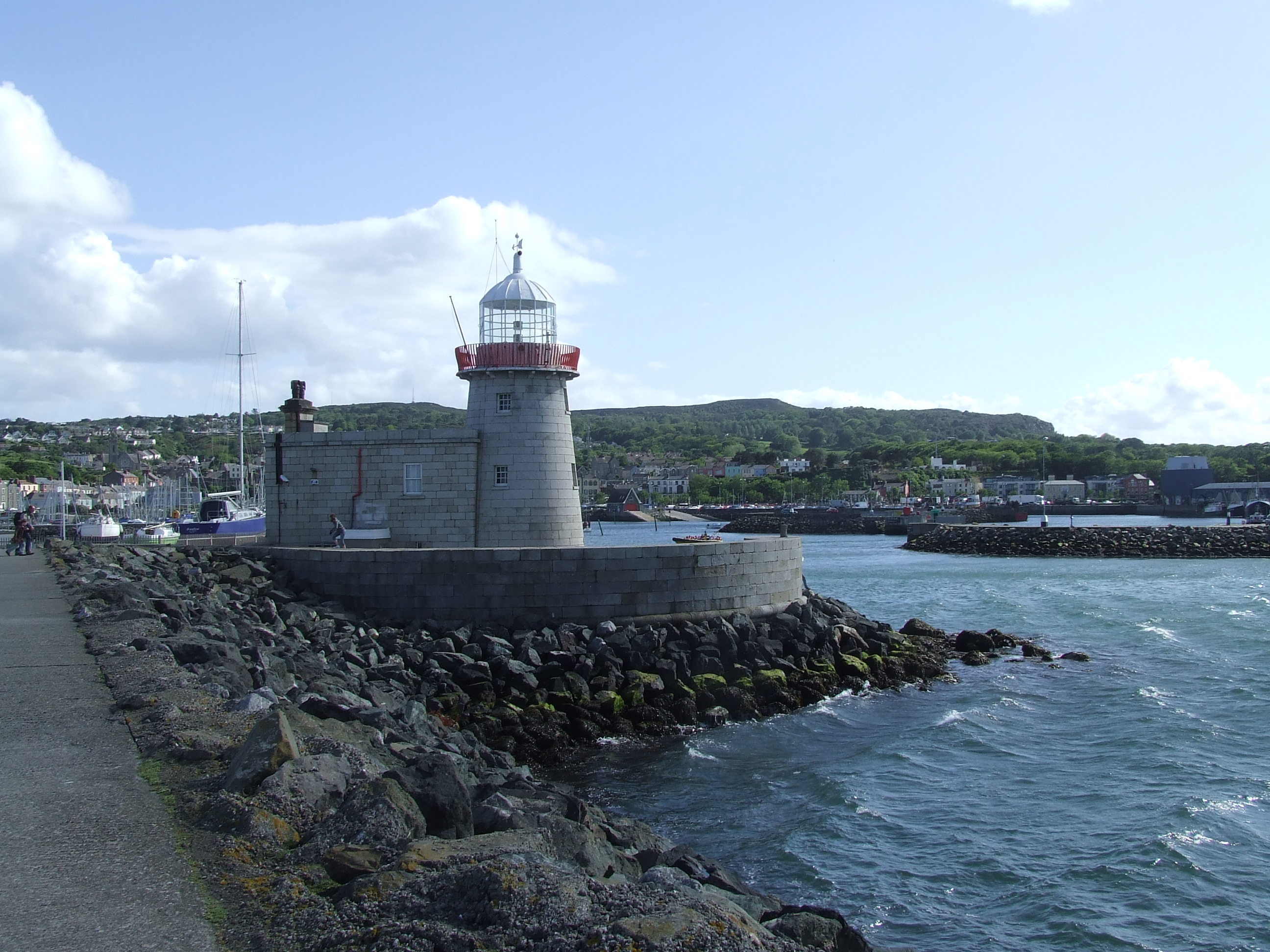 Lighthouse at Howth harbour, County Dublin, Ireland.